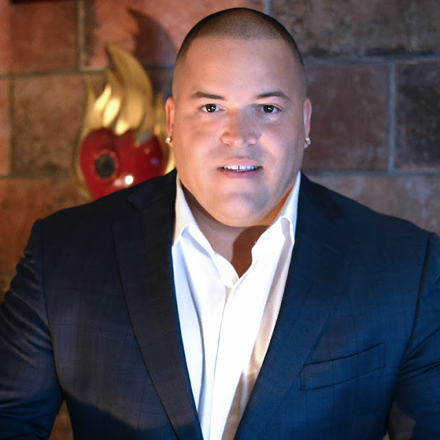 Photograph of music manager, Johnny Marines